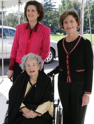 Laura Bush welcomes Lady Bird Johnson and her daughter, Lynda Johnson Robb, on their visit to the White House.